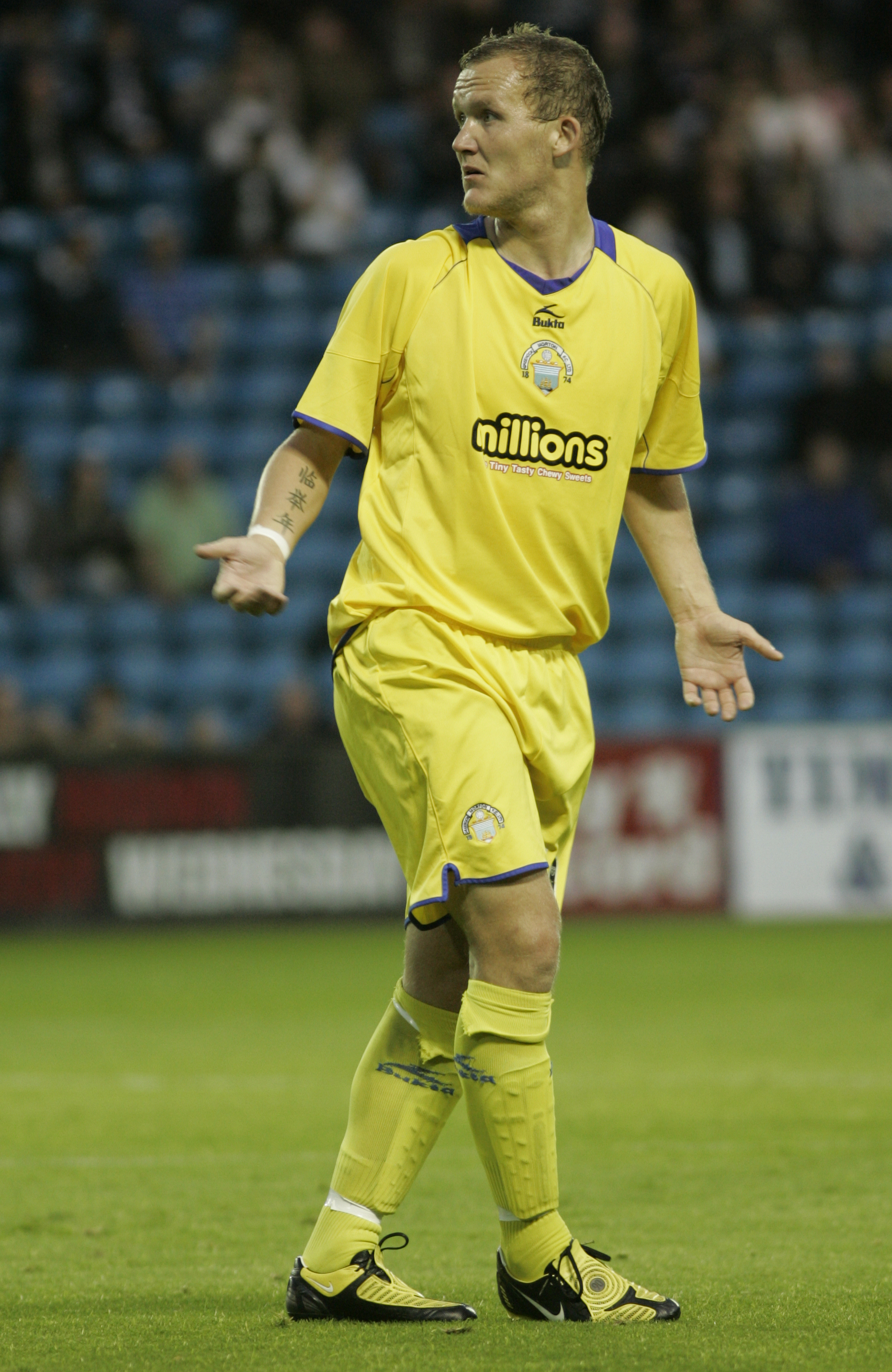 Kilmarnock vs Morton - CIS Cup 2nd Round.